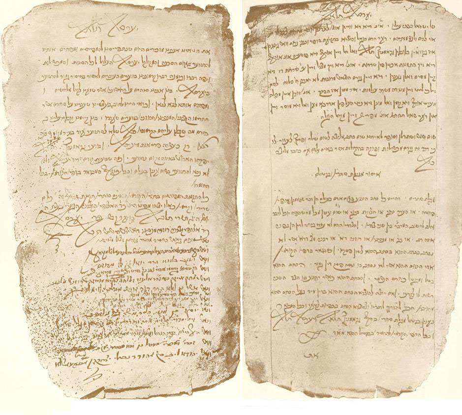 Page from the minutes-book of the Council of Four Lands, obverse and reverse, formerly in the possession of Simon Dubnow. From the 1901-1906 Jewish Encyclopedia, now in the public domain.